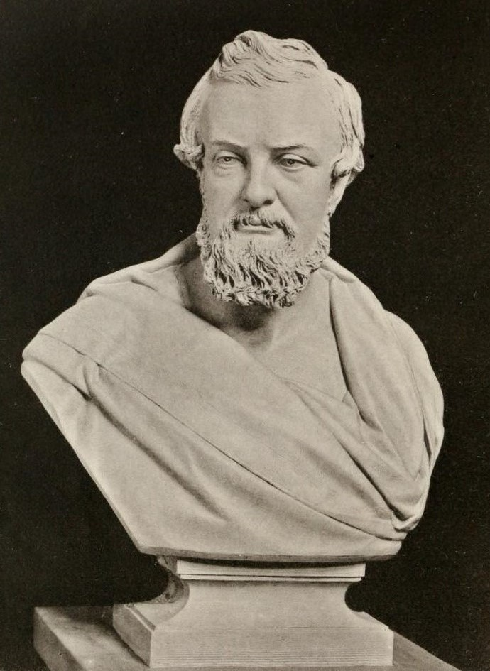 Bust of Welsh historian, literary critic and social reformer Thomas Stephens (1821–1875) by Joseph Edwards (1814–1882), from The Literature of the Kymry (Stephens, 1876, 2nd ed.)